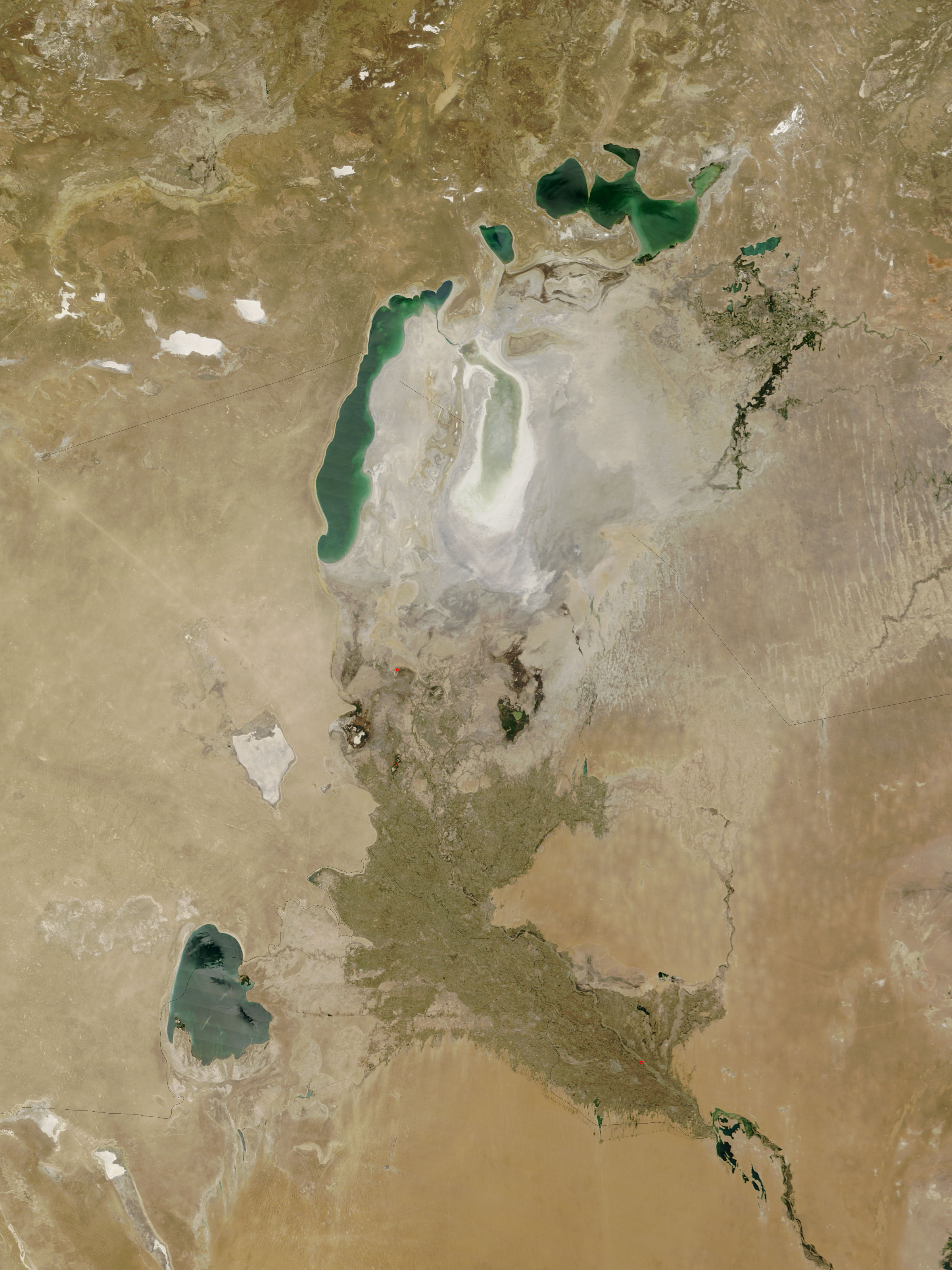 Aral Sea on 18 June 2009